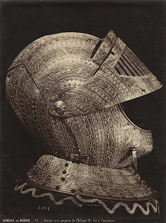 This elaborate helmet with gorget (or collar) from the Royal Armory in Madrid was made for King Philip III of Spain (reigned 1598-1621) at Pamplona. It has been alternately identified by Calvert (1907) as the helmet of the Duke of Savoy.